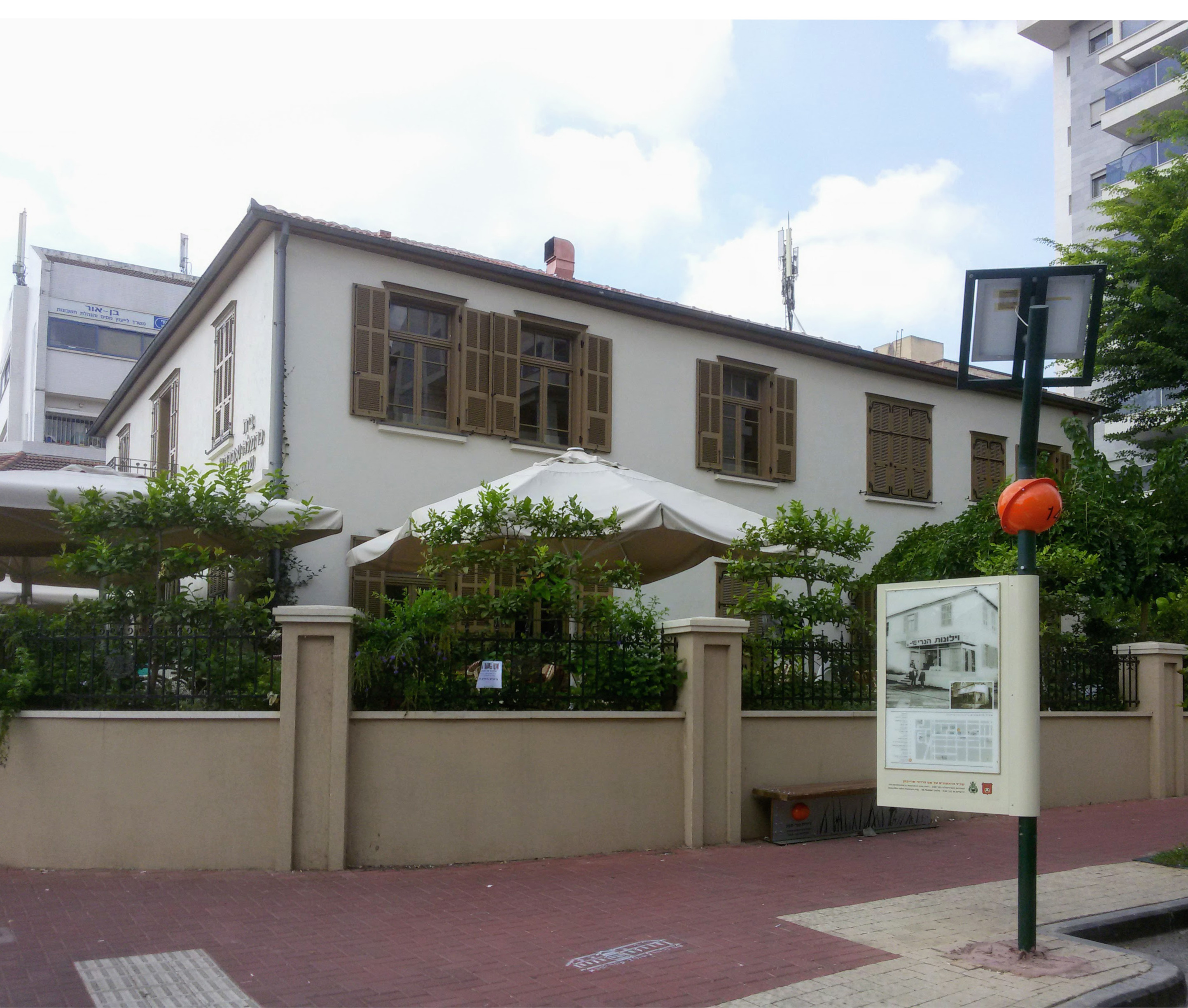 The Founders' Trail, Kfar Saba: site #14 - Beit Huminer